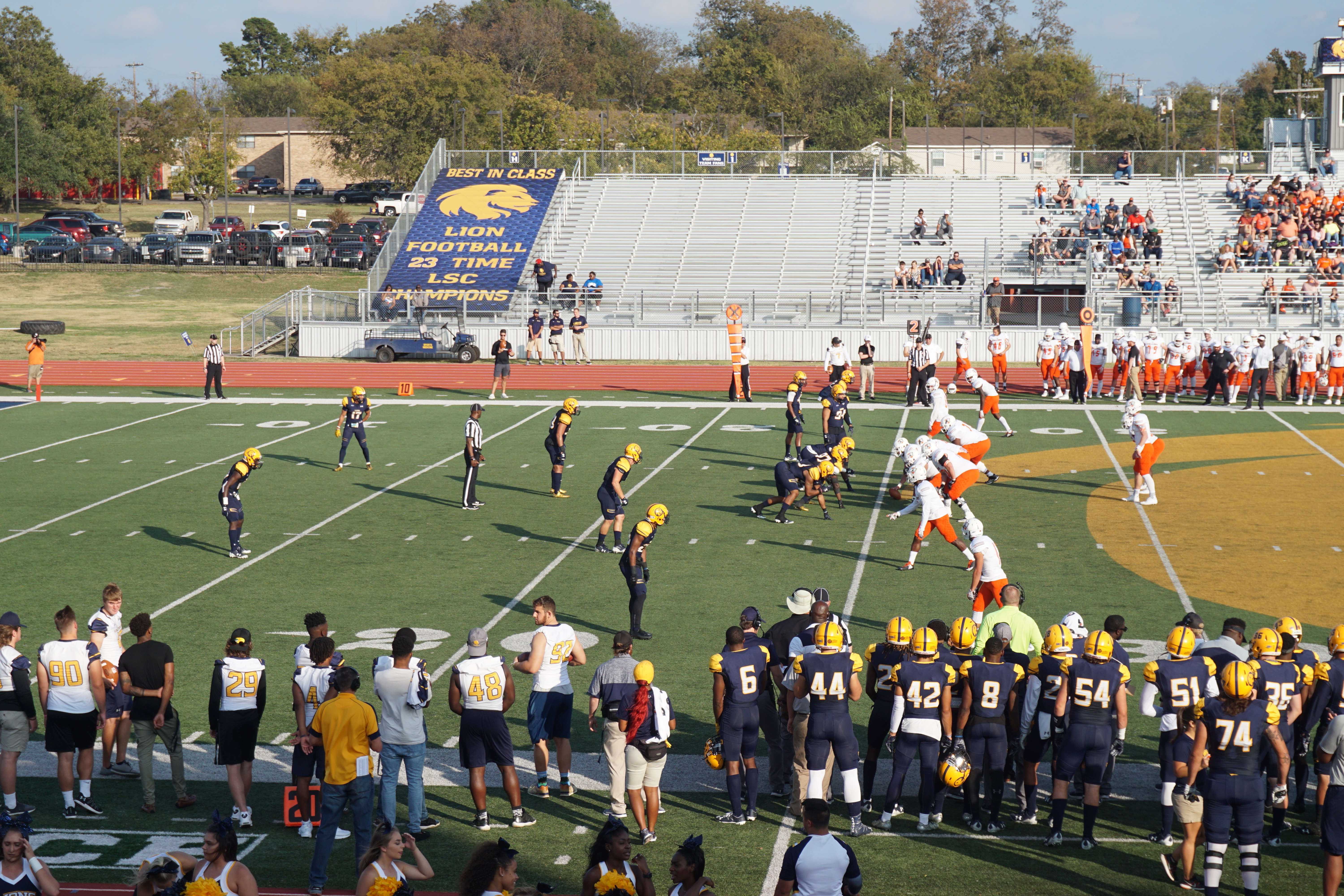 Texas–Permian Basin on offense during the Texas–Permian Basin Falcons vs. Texas A&M–Commerce Lions football game at Memorial Stadium in Commerce, Texas (United States). A&M–Commerce won 52–0.